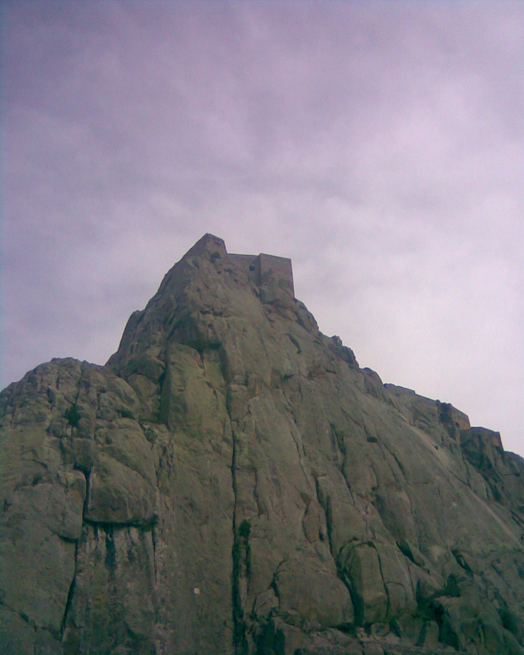 rear view of Babak castle.